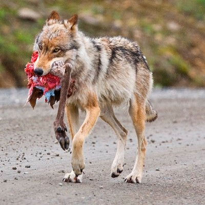 A gray wolf with a caribou hindquarter in Denali National Park and Preserve.